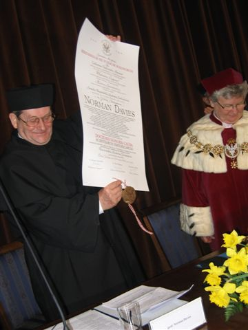 Norman Davies (b. 1939), British historian - Doctor Honoris Causa Warsaw University